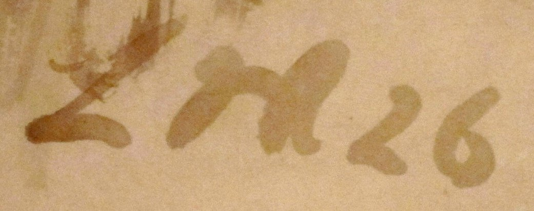 Signature of Ludwig Meidner, 1926